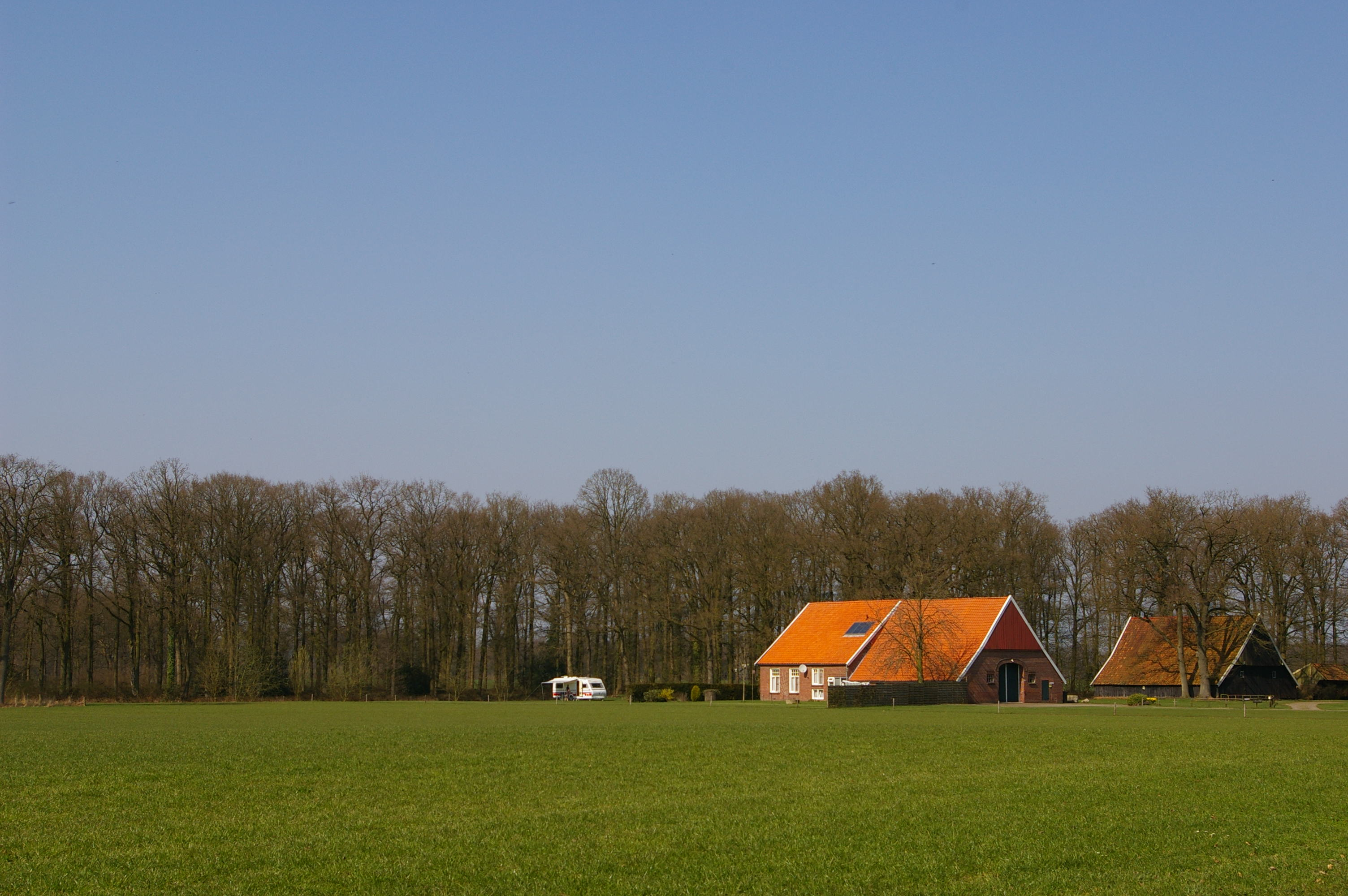 Rural campsite ("minicamping" or "boerderijcamping") along the Scholtenpad Hiking trail, near Meddo, north of Winterswijk.